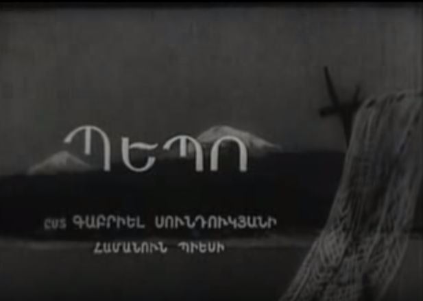 Screenshot from USSR movie "Pepo" (Պեպո). 1935 year (Armenfilm).